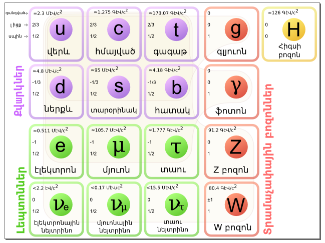 Standard model of elementary particles: the 12 fundamental fermions and 4 fundamental bosons. Brown loops indicate which bosons (red) couple to which fermions (purple and green). Please note that the masses of certain particles are subject to periodic reevaluation by the scientific community. The values currently reflected in this graphic are as of 2008 and may have been adjusted since. For the latest consensus, please visit the Particle Data Group website linked below.